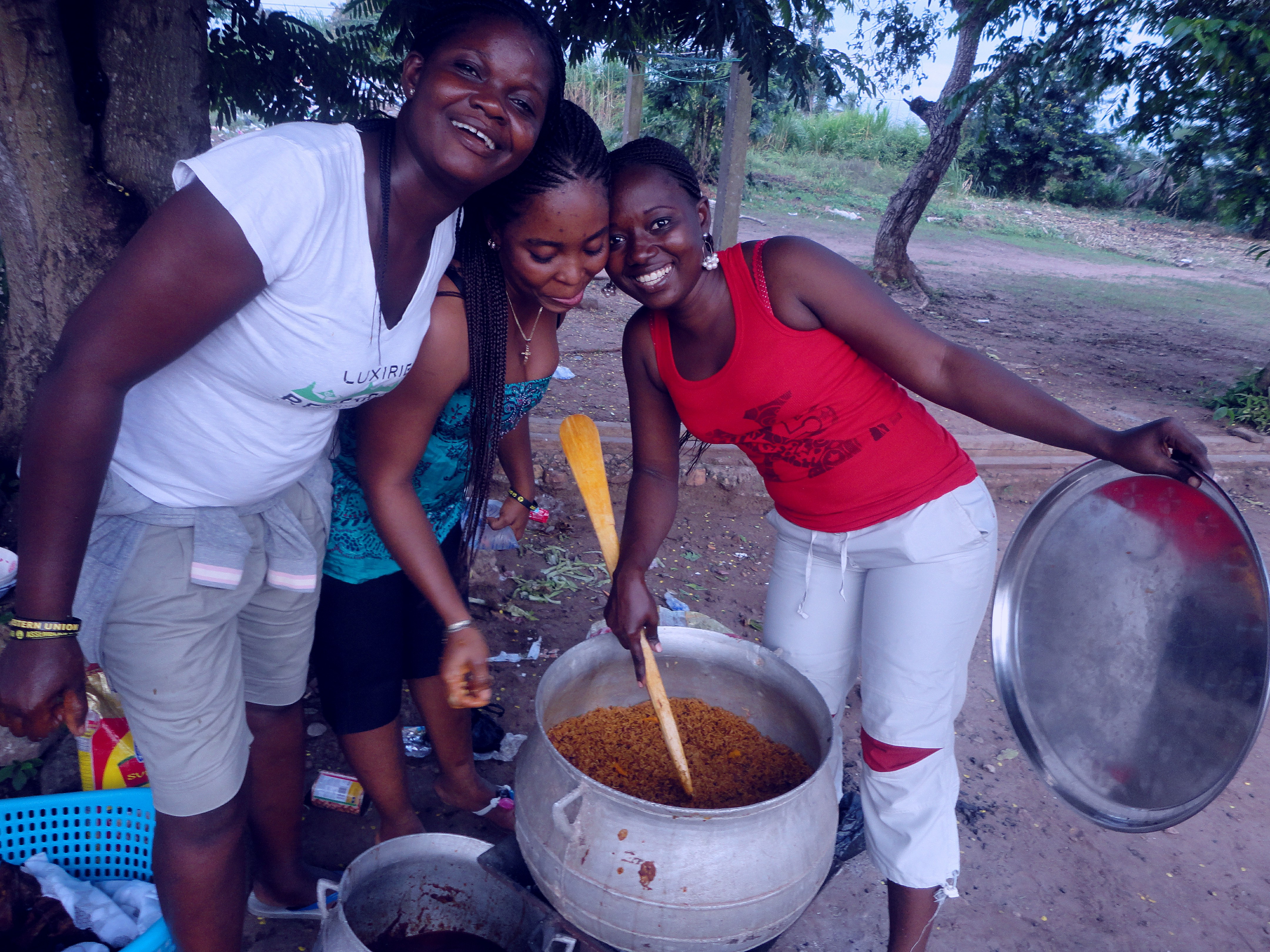 This is an image of "African people at work" from Ghana